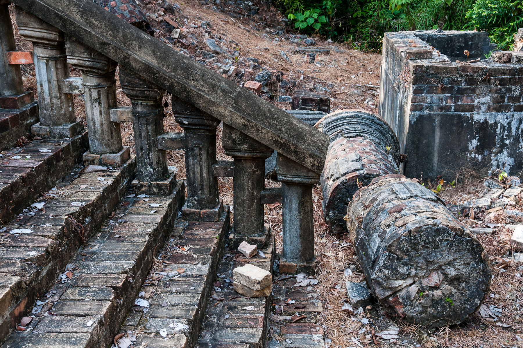 Kinarut, Sabah: The Kinarut Mansion